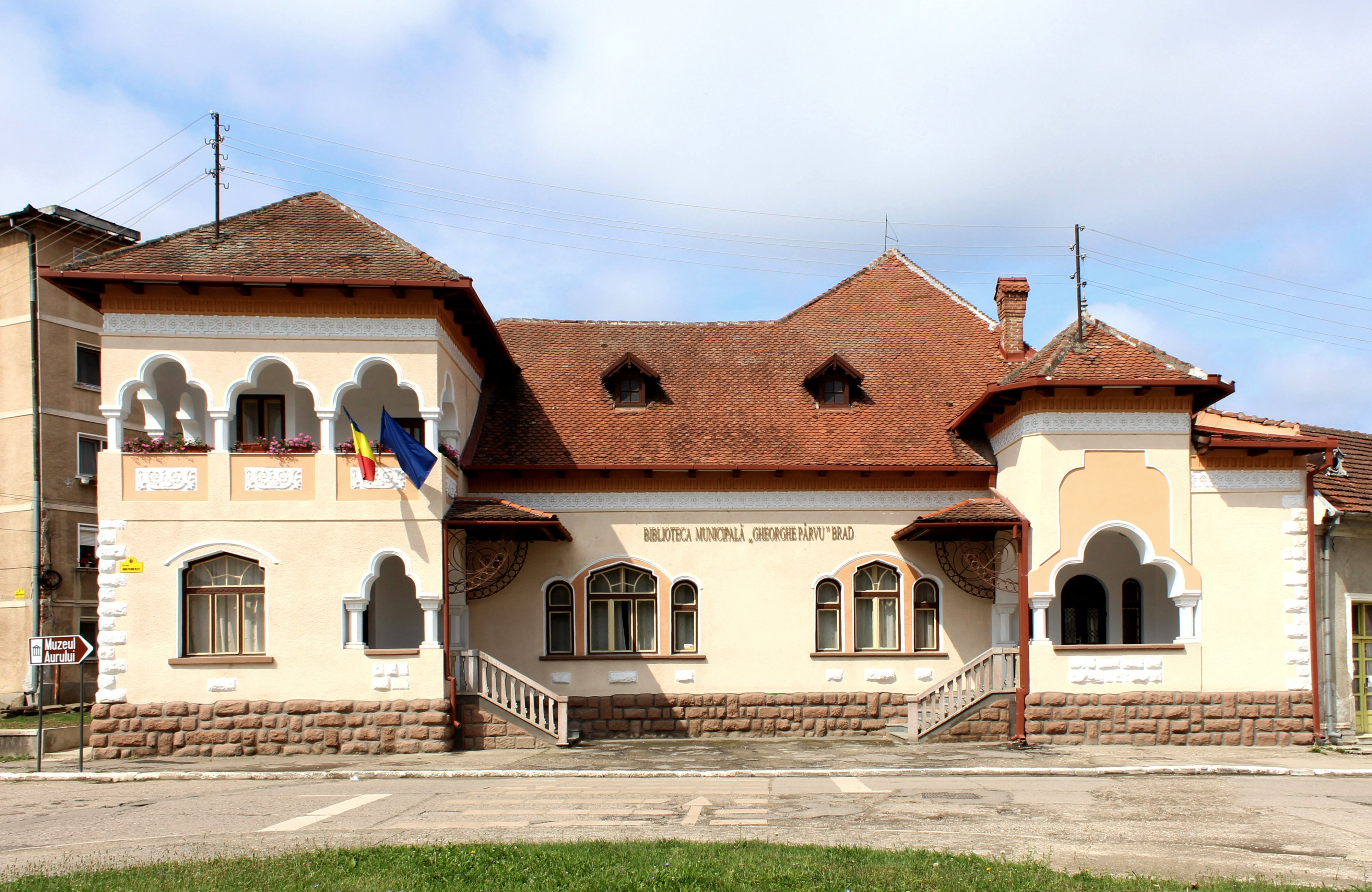 Municipal Library "Gheorghe Parvu" in Brad, Romania